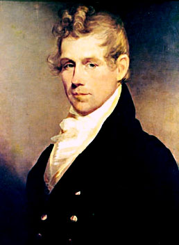 19th century painting of John McKinley (by Matthew Harris Jouett [1])